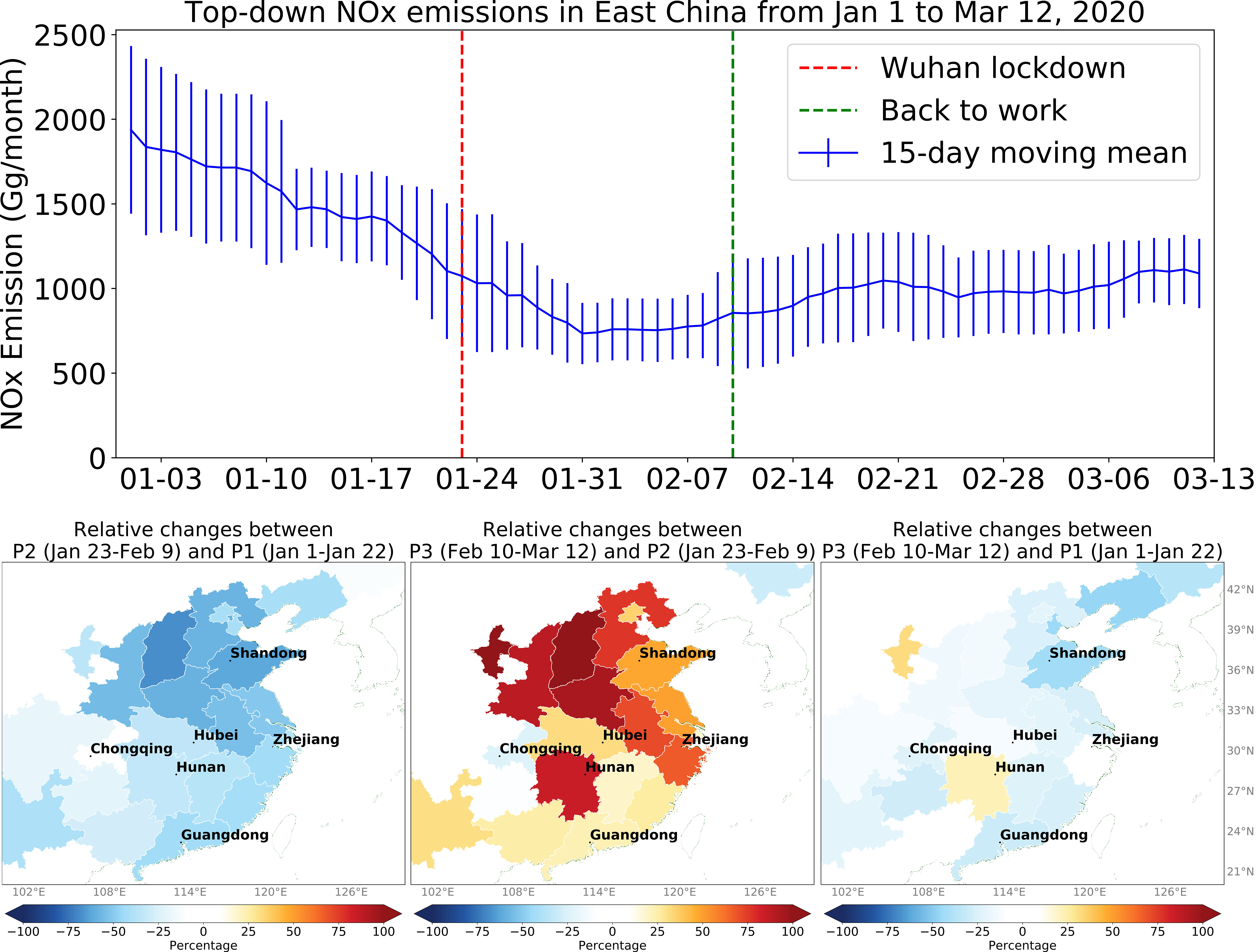 Top panel: NOx emission estimates in East China during COVID-19. Bottom panels: NOx emission changes at provincial levels between the periods.